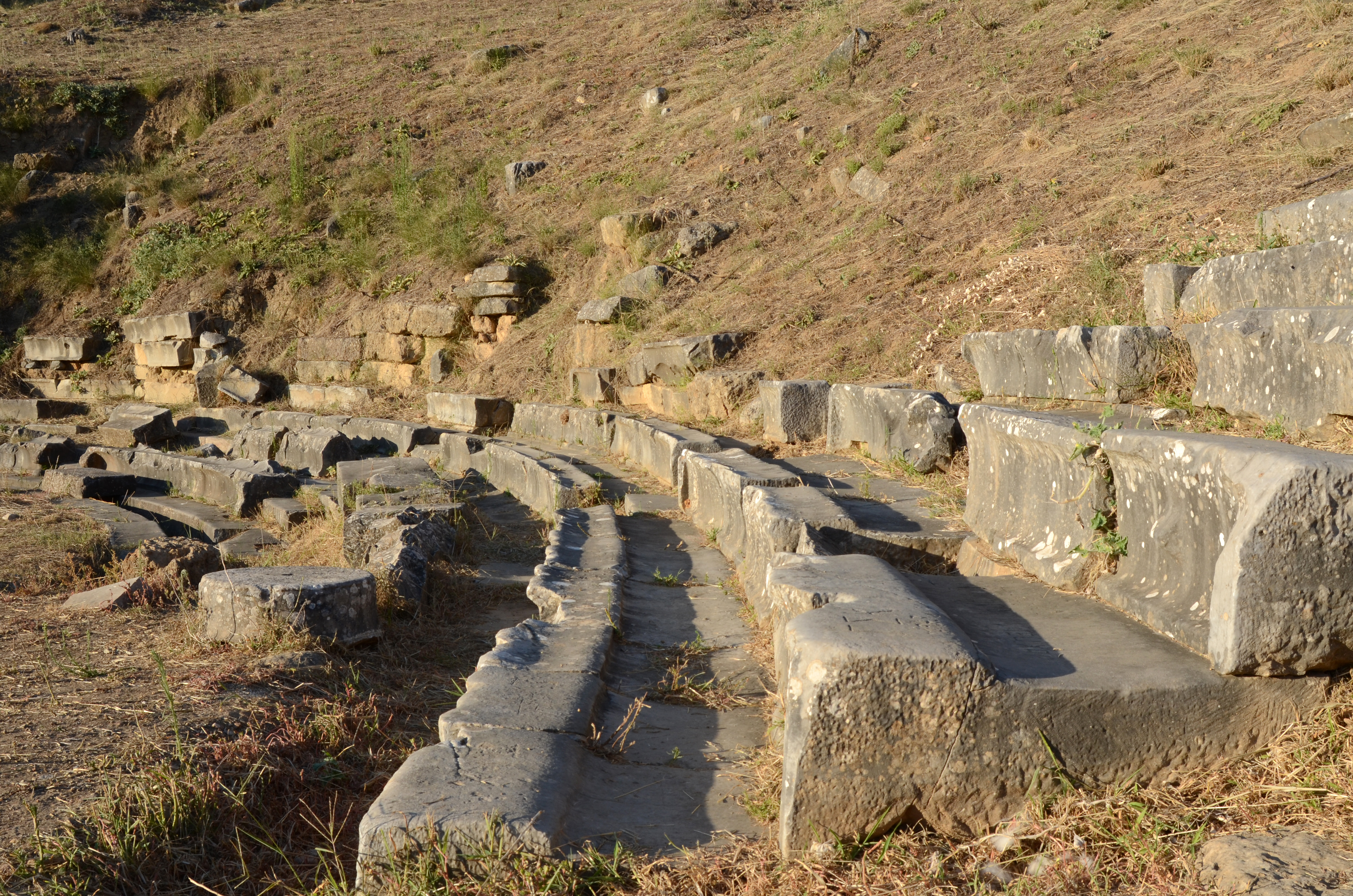 Rows of seats of the ancient Spartan theatre.